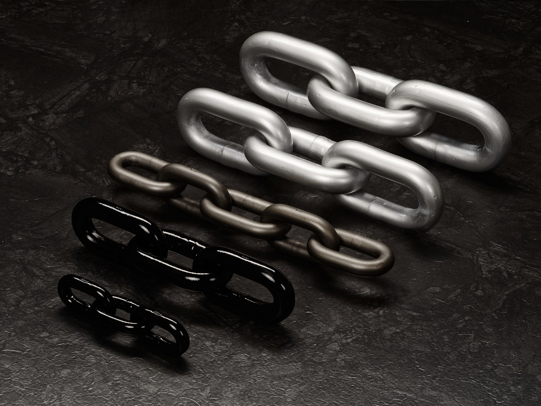 The photo shows the chain range of FASING Group, one of the world's key producers of industrial chains